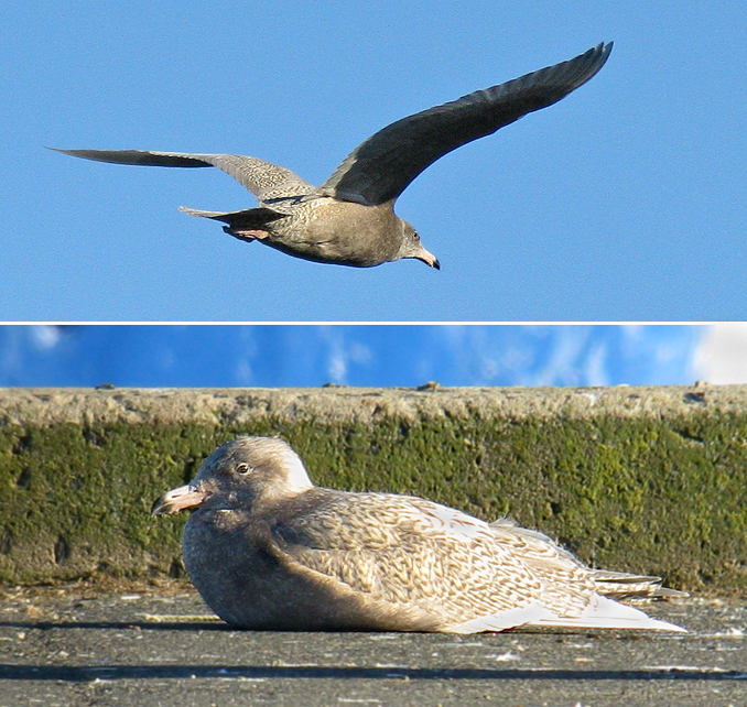 Glaucous Gull - Larus hyperboreus 1 Cy. Simrishamn Sweden 2011.